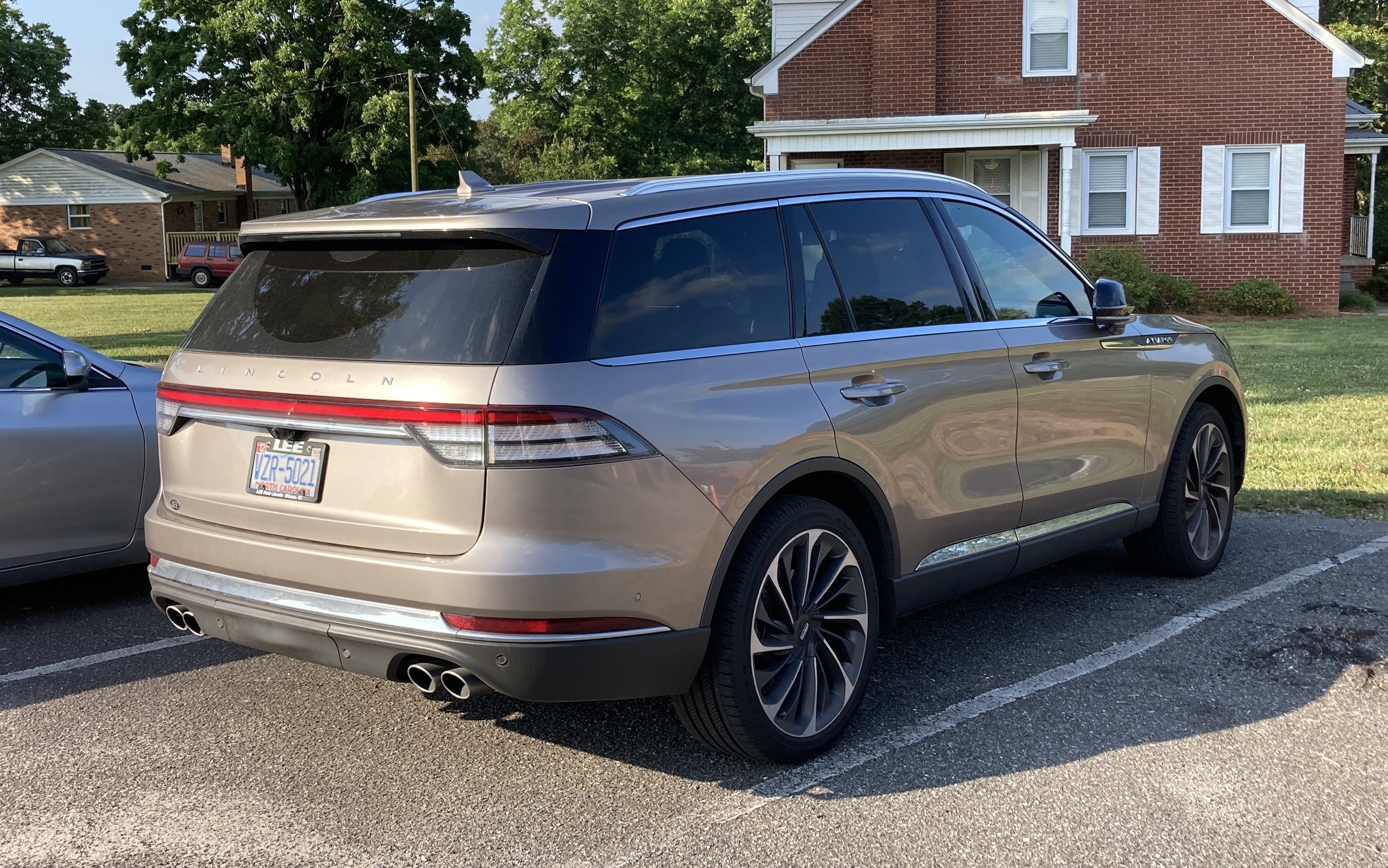 The rear view of a new Lincoln Aviator